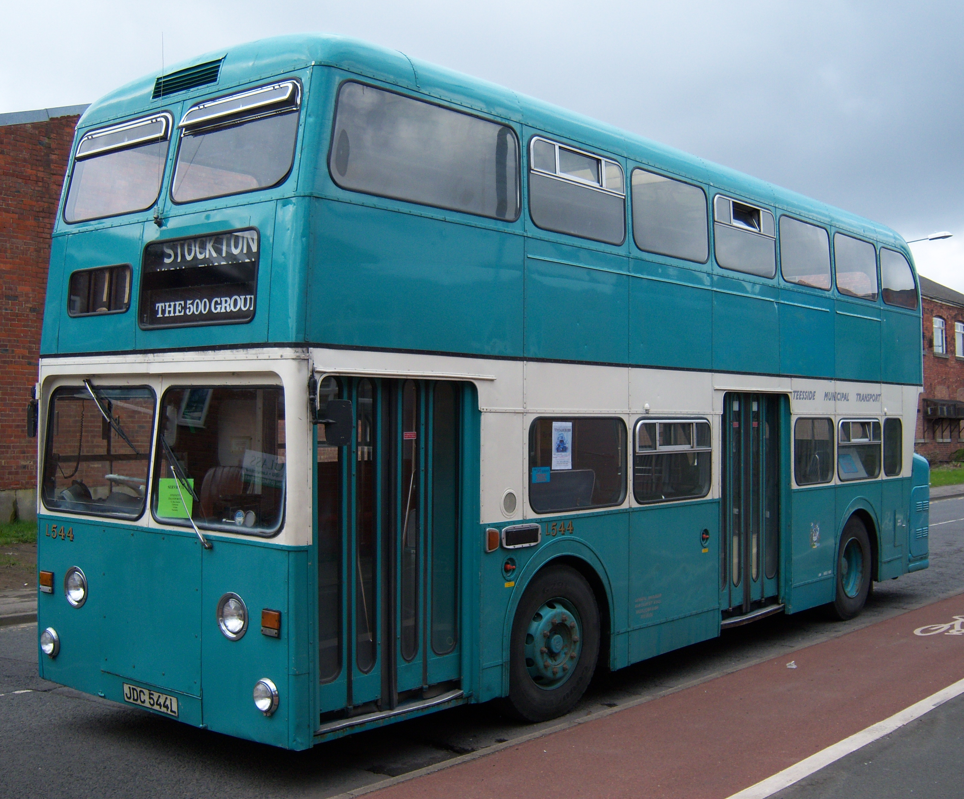 Preserved Teesside Municipal Transport bus L544 (reg. JDC 544L), a 1973 Daimler Fleetline with dual-door Northern Counties bodywork, pictured at the 2012 Teeside Running Day. It's parked on Vulcan Street facing east (see the rally categories for further operational/location details).